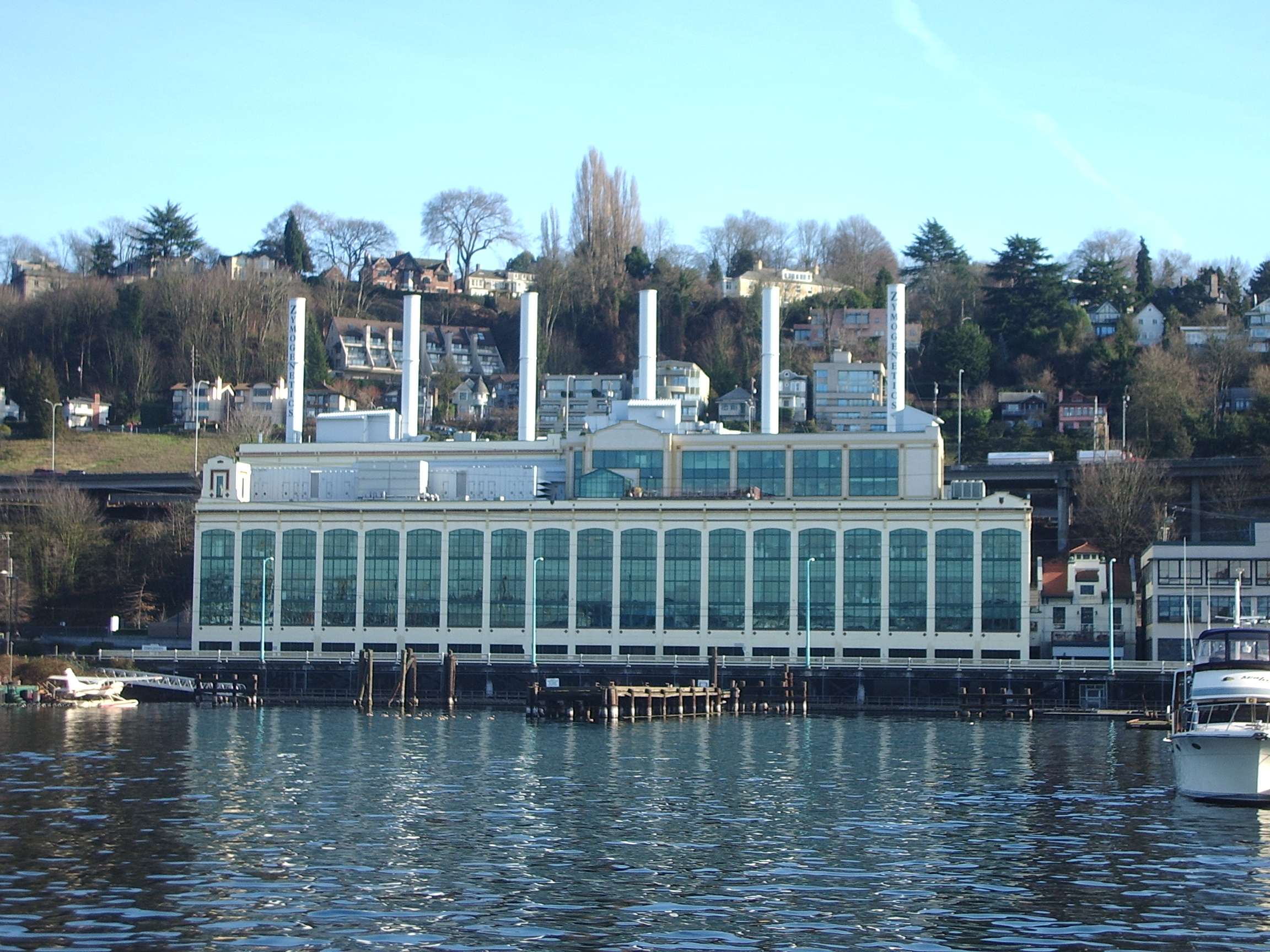 Zymogenetics Headquarters Builing, as viewed from Lake Union